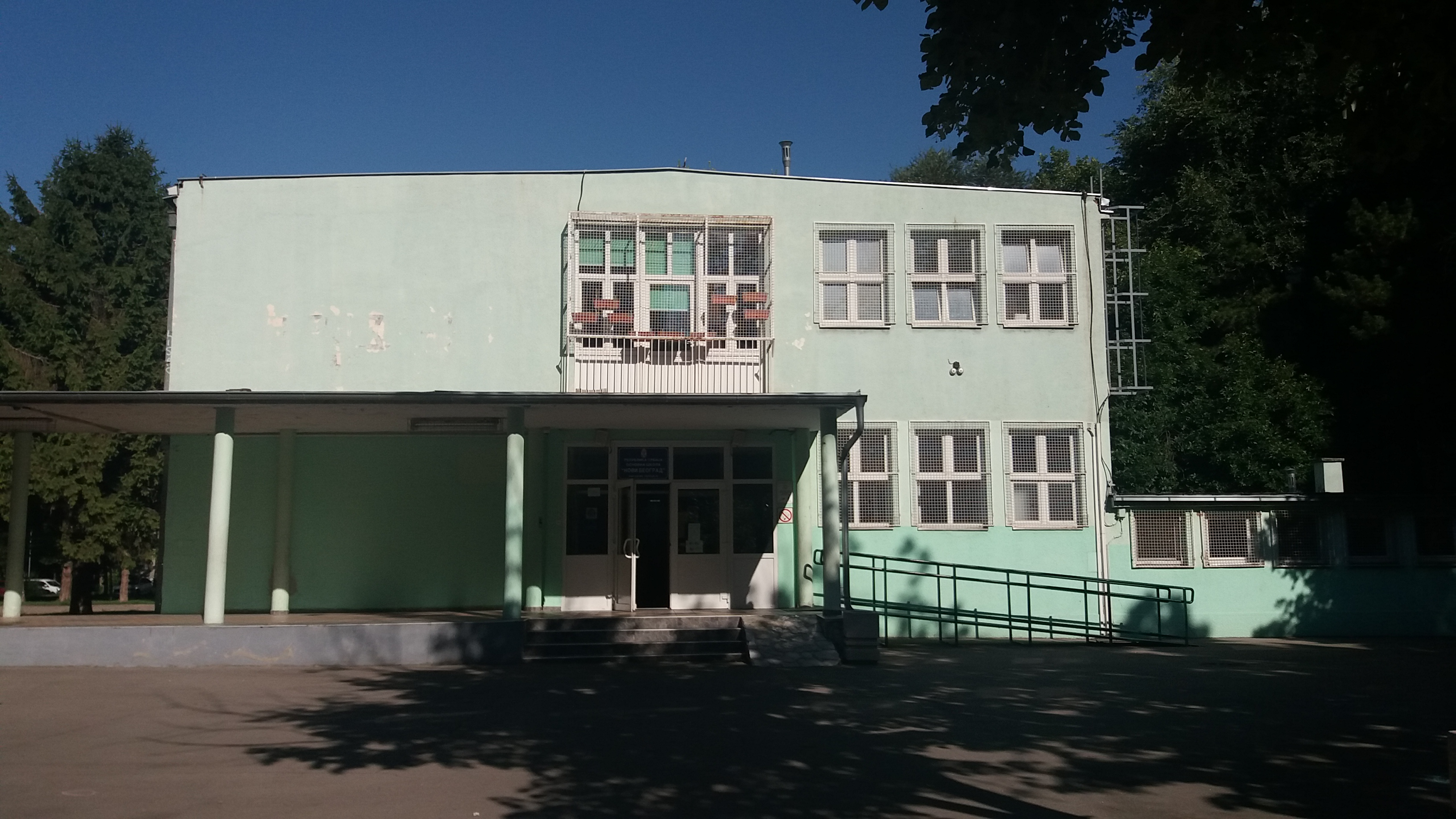 Elementary school "New Belgrade", block 3, New Belgrade